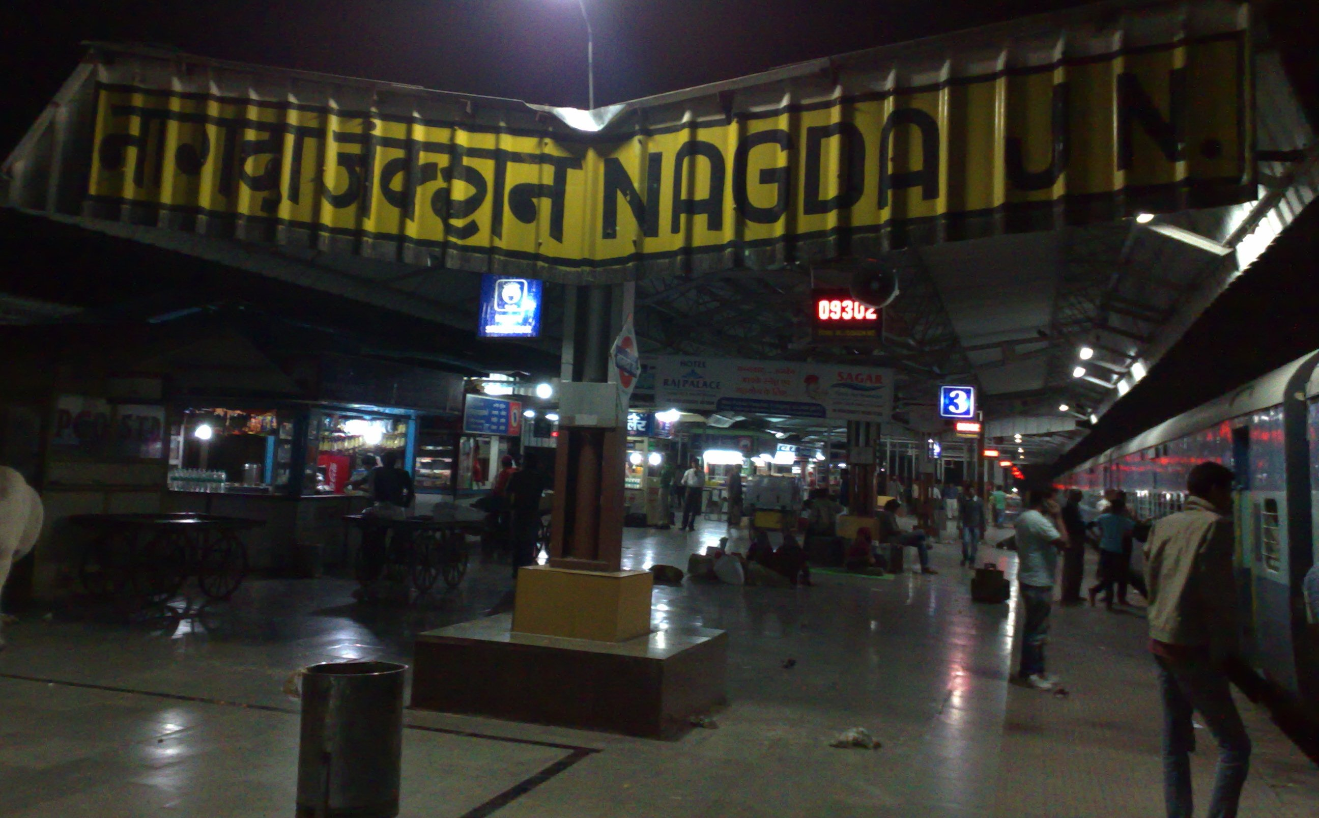 Nagda Station - Roof